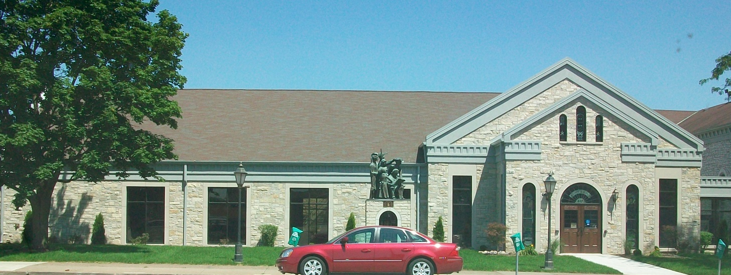 St. Anthony's Catholic Church in Davenport, Iowa